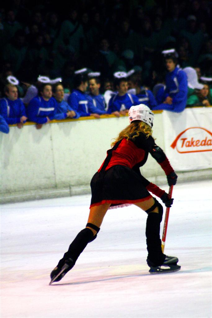 Impression from the Ice hockey competition Uni-Cup 2009 of the University Sports Centre of Aachen University for the ThyssenKrupp-Trophy, Aachen, Germany